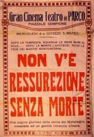 Silent movie recorded in 1922 in Italy, funded by the Commitee of Motenegrin Exiles (including the former Queen Milena)